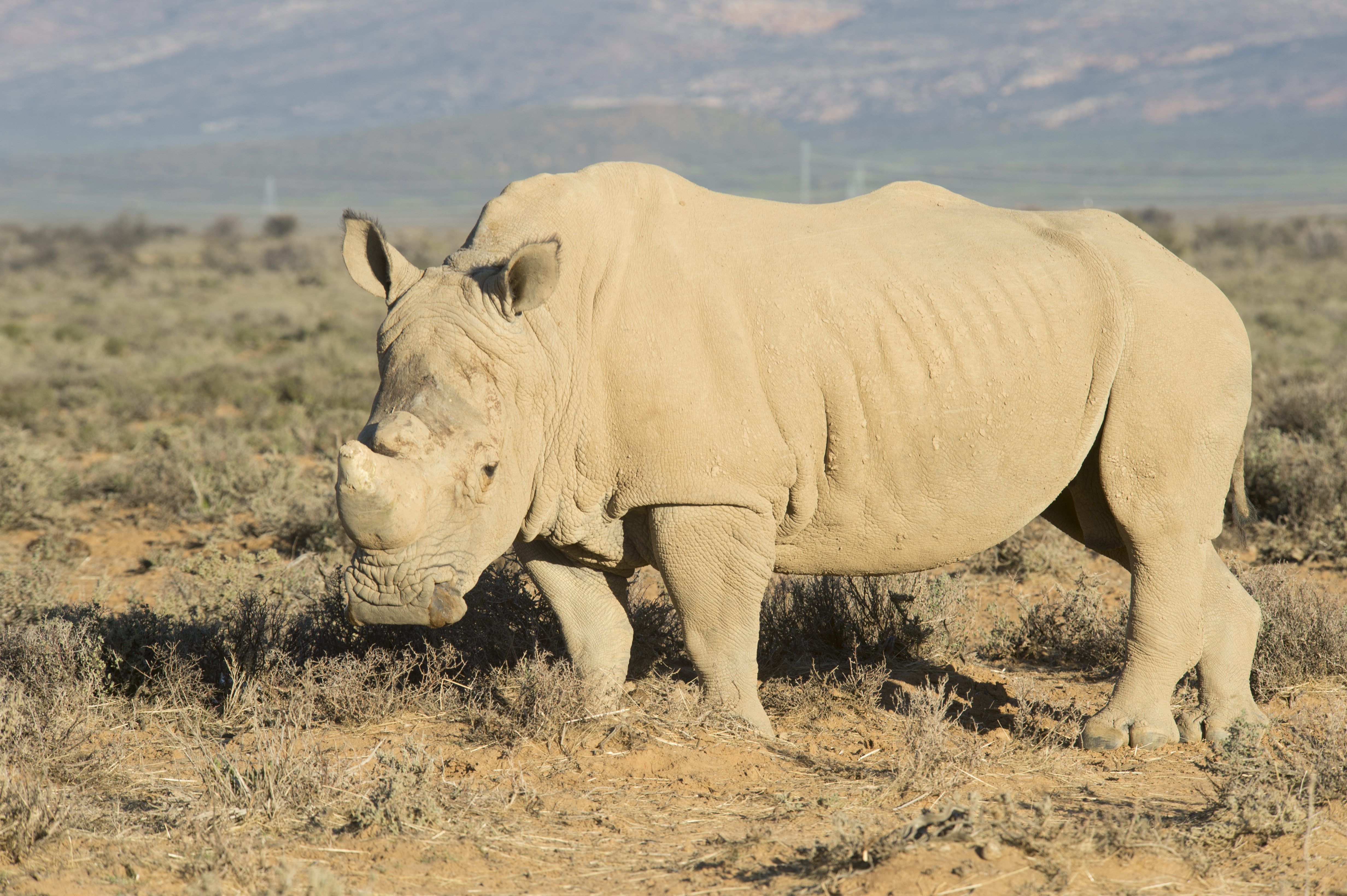 Rhinoceros in South Africa